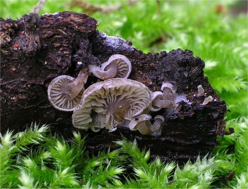 Fruit bodies of the fungus Entoloma byssisedum. Specimen photographed in Gotland, Sweden.